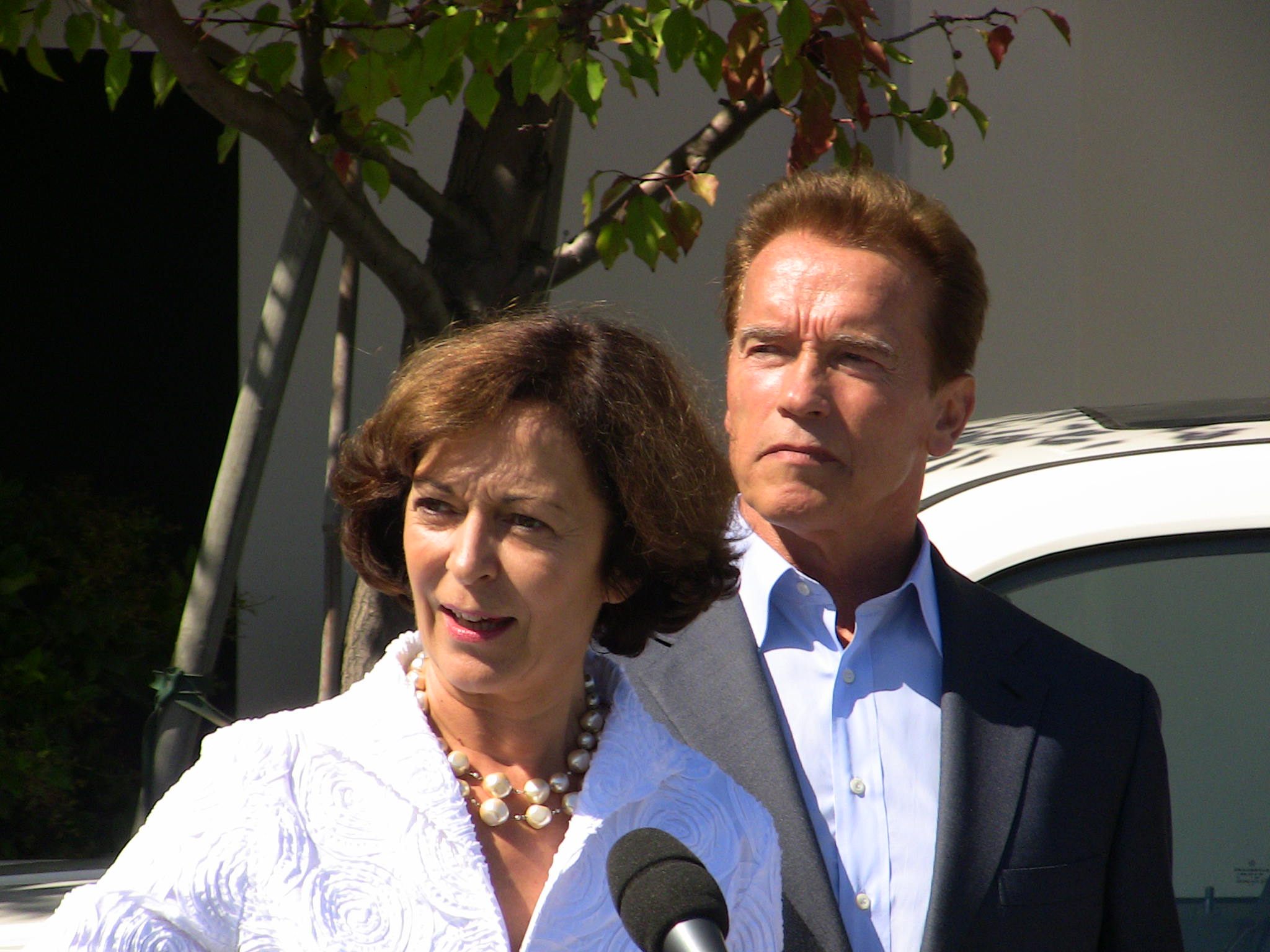 Anne-Marie Idrac and Gov. Arnold Schwarzenegger in Sacramento, September 2009